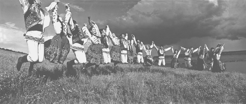 "Before a trip to Berlin on the World Festival" (1972).